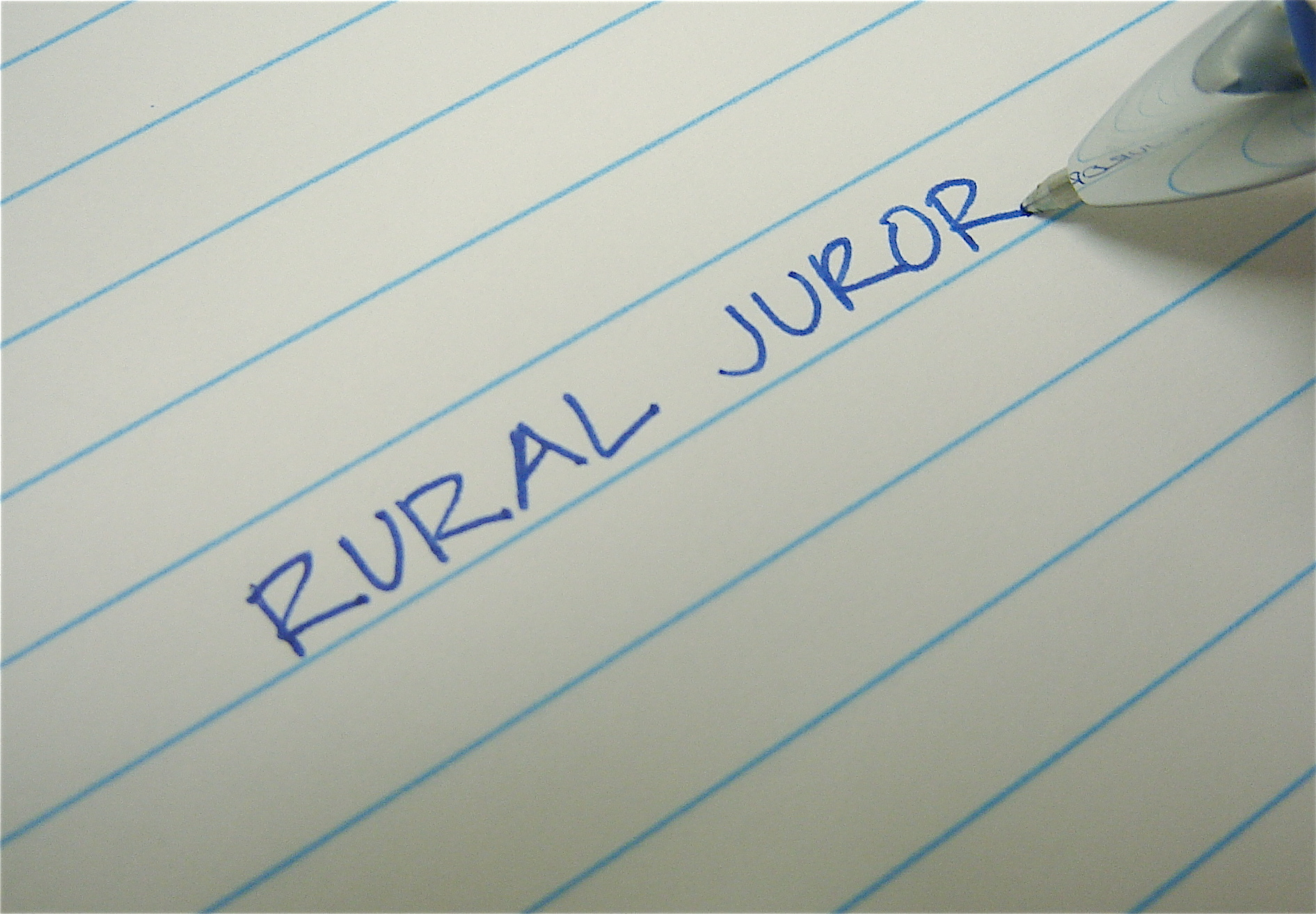 A writing pen